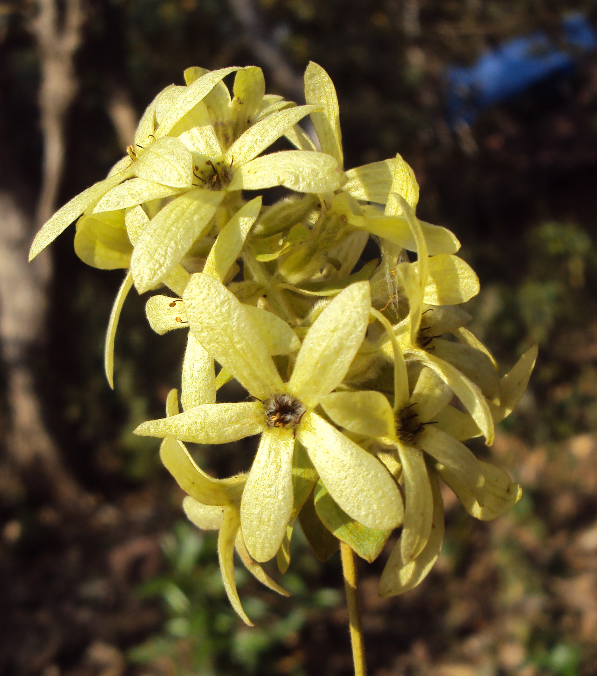 Getonia floribunda